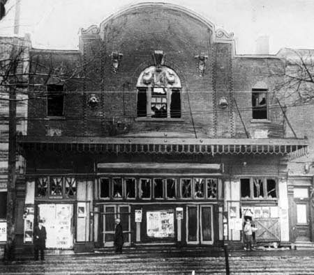 Facade du Laurier Palace après l'incendie, 1927